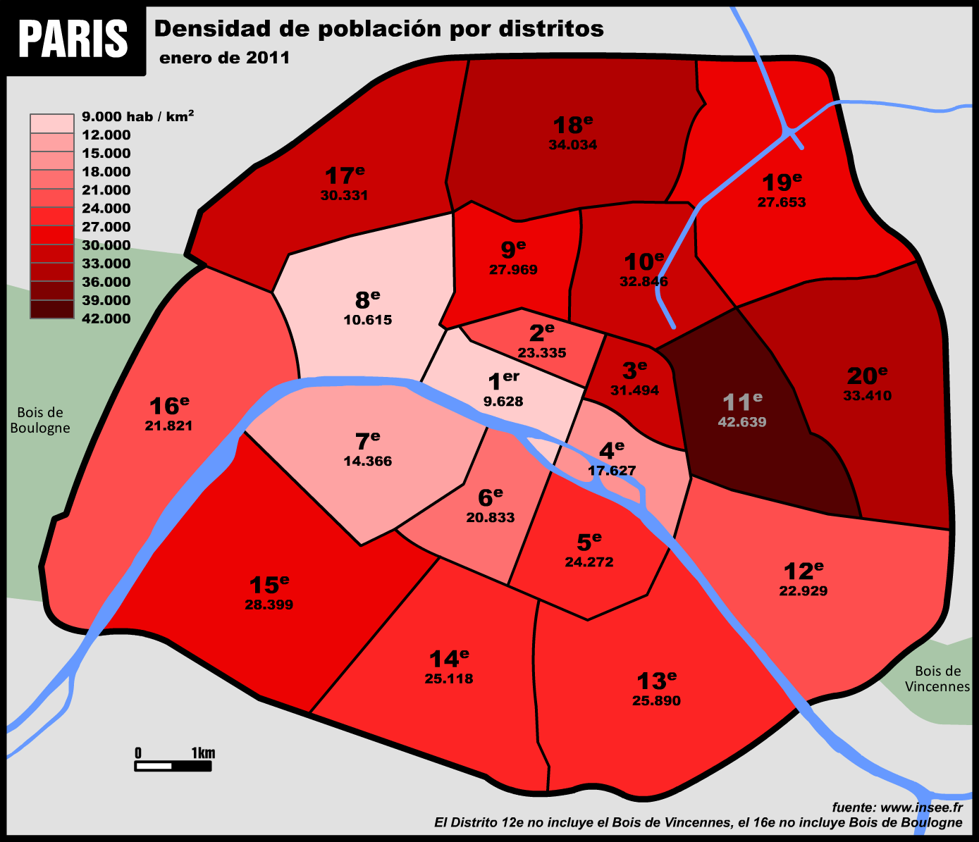 Population density in Paris in 2011, for districts.